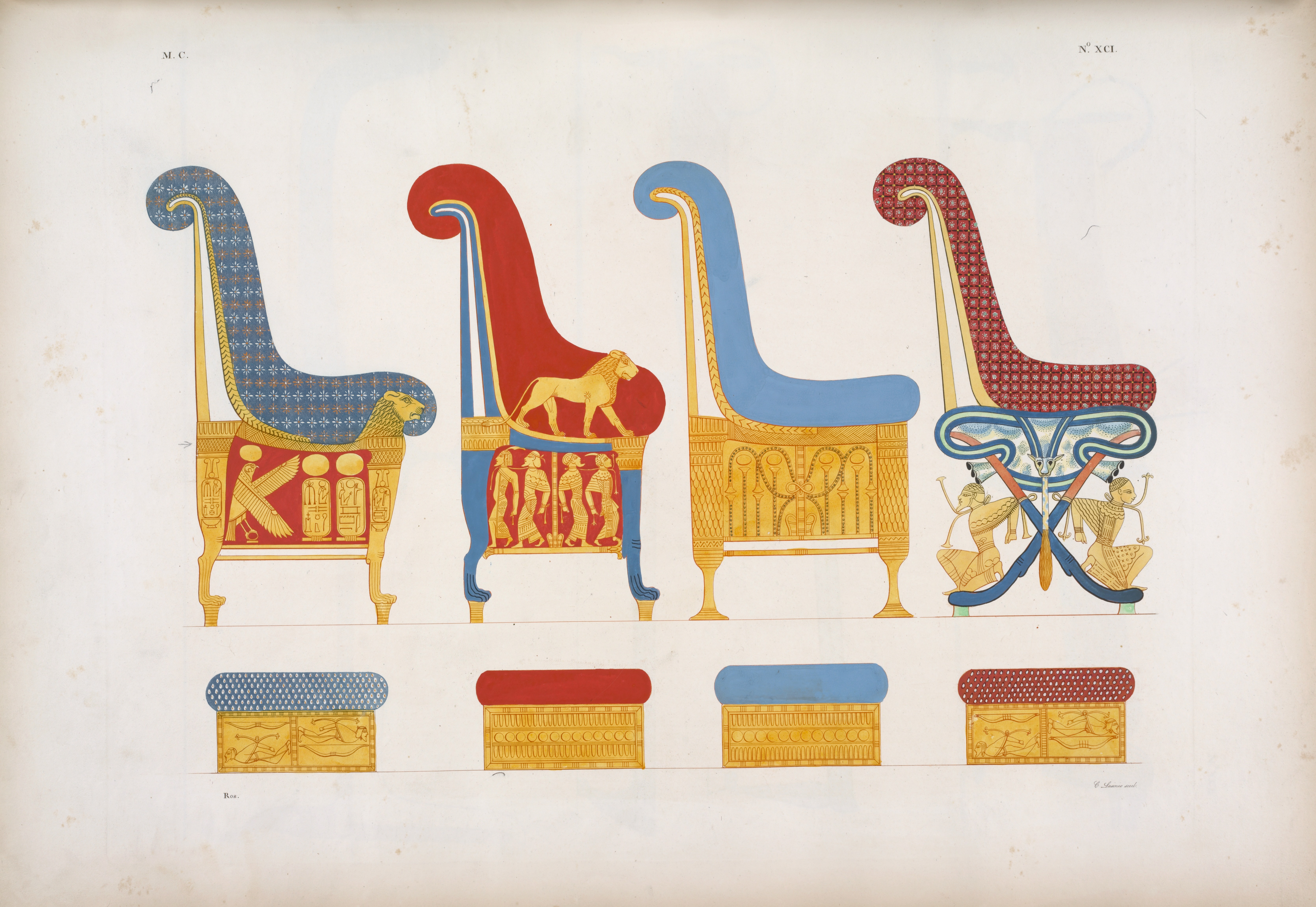 Quattro sedie reali coi loro suppedanei.